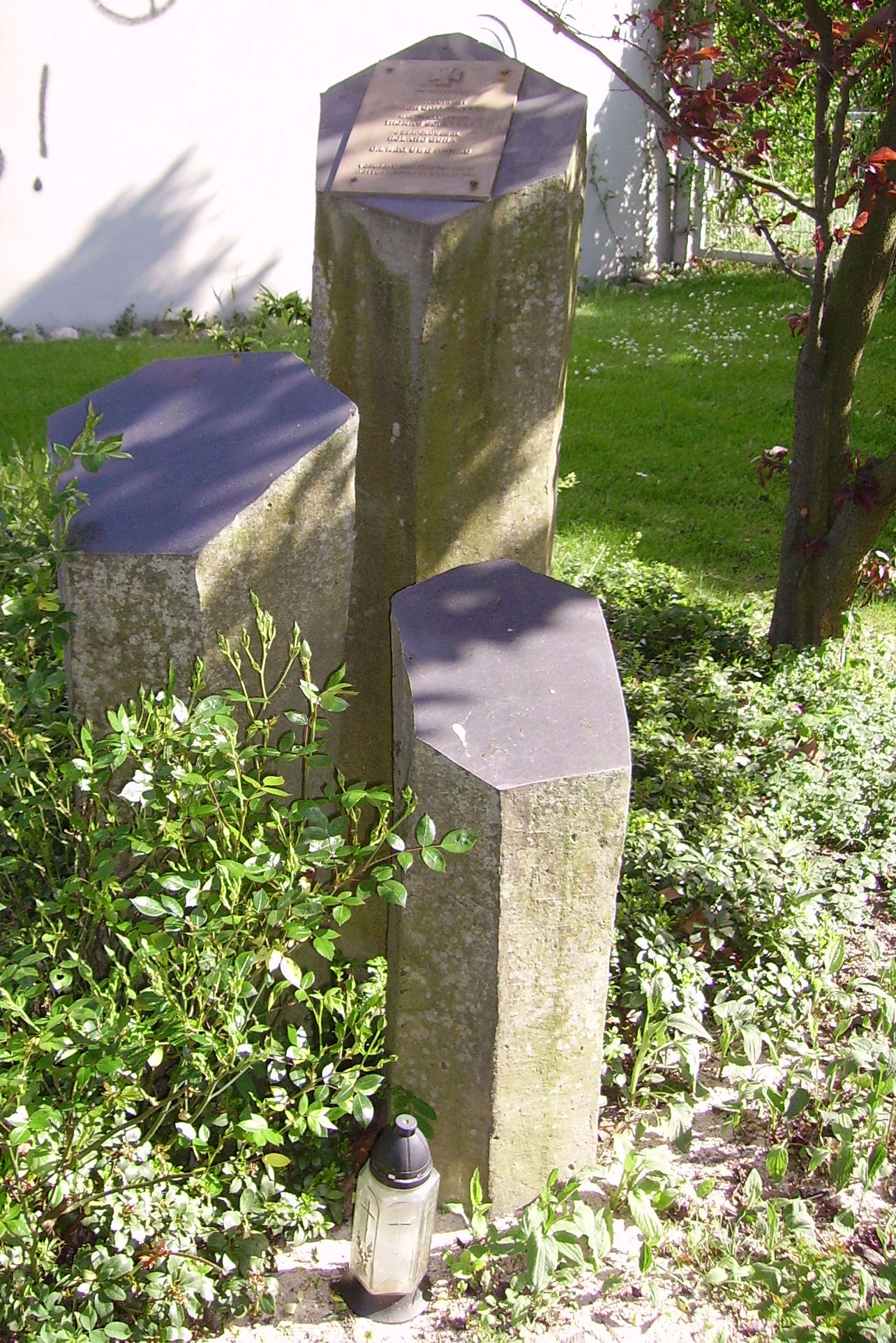 Fernmeldeturm Mannheim